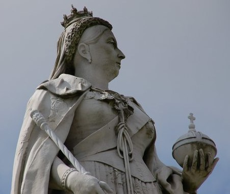 Queen Victoria statue, Belfast (2) See 432403. This is the conventional view.